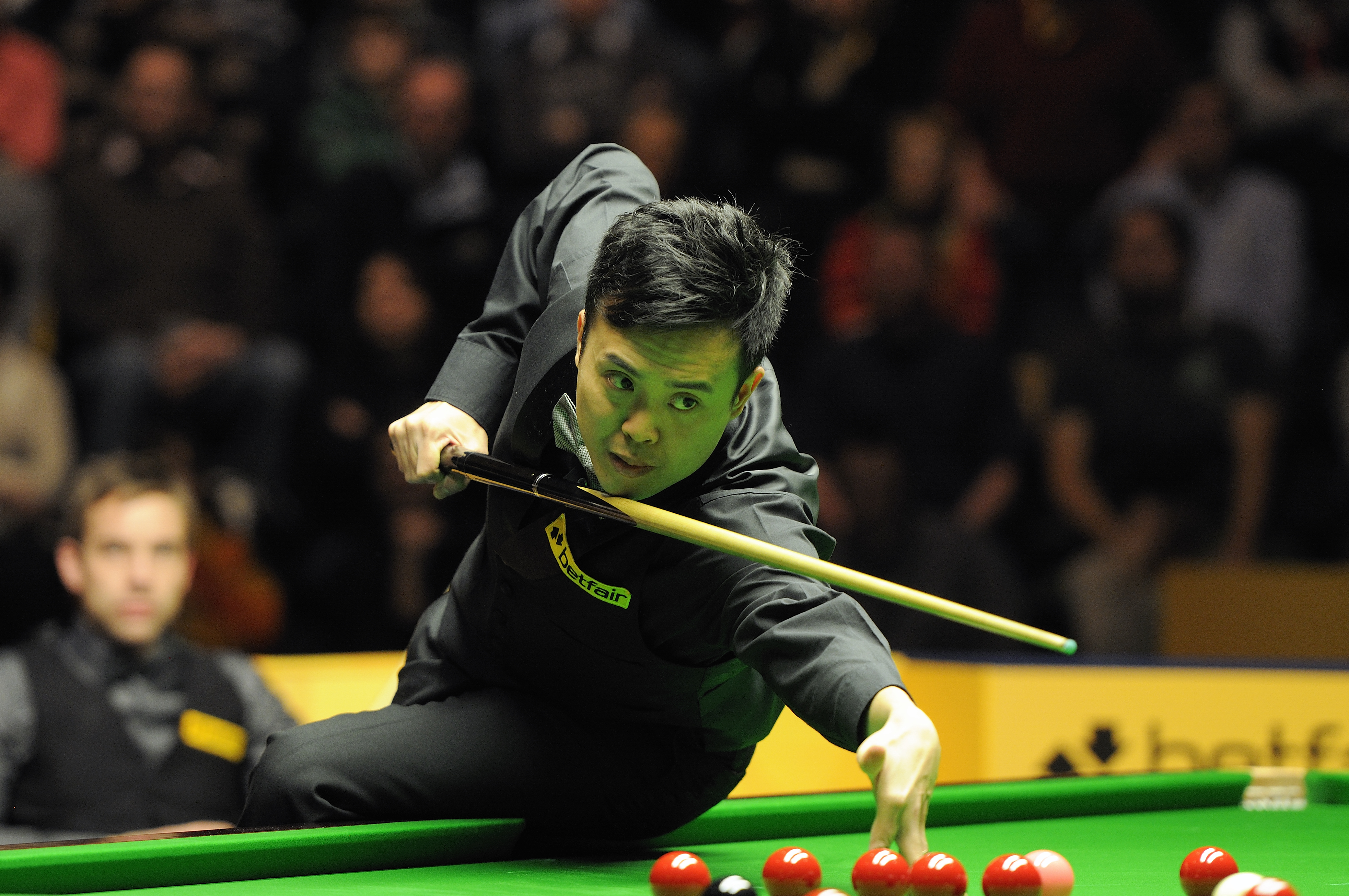 Picture taken in Berlin during the Snooker German Masters in 2013. Ali Carter and Marco Fu.